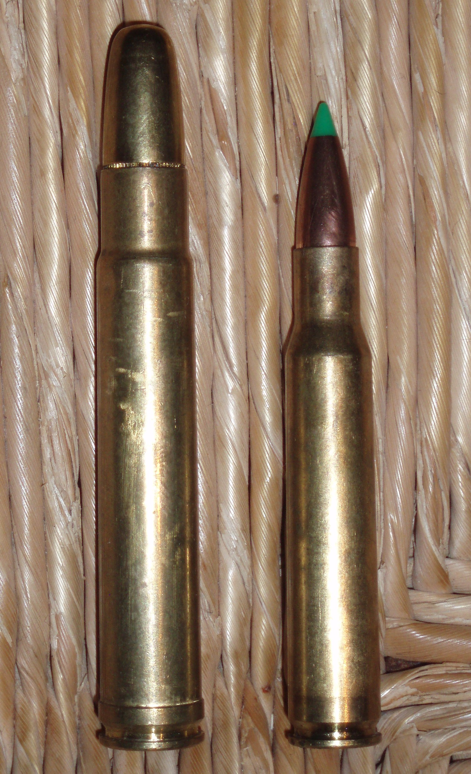 Picture og a .416 Remington Magnum beside a .30-06 Springfield.